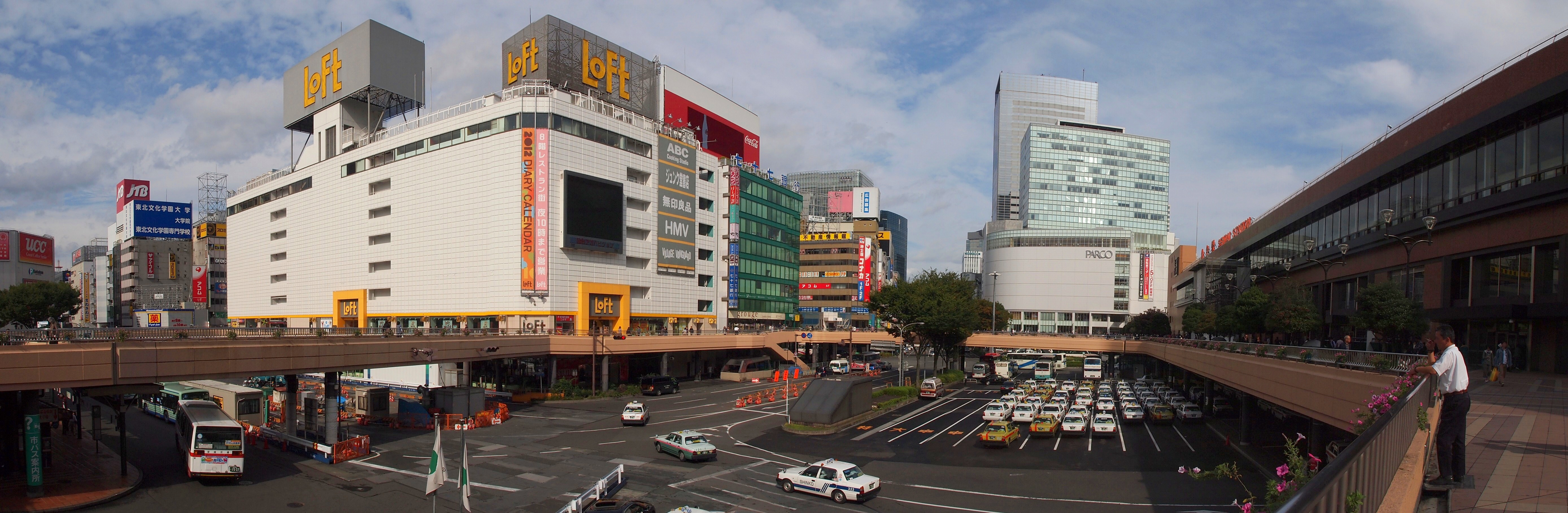 Panorama of JR Sendai Station East Entrance. They are picture compensation and panorama composition at a Zona Photo Studio.